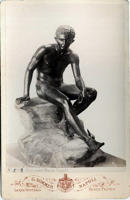 Giorgio Sommer (1834-1914) - "Hermes (Archaeological Museum (Naples)". Catalogue # 5118.